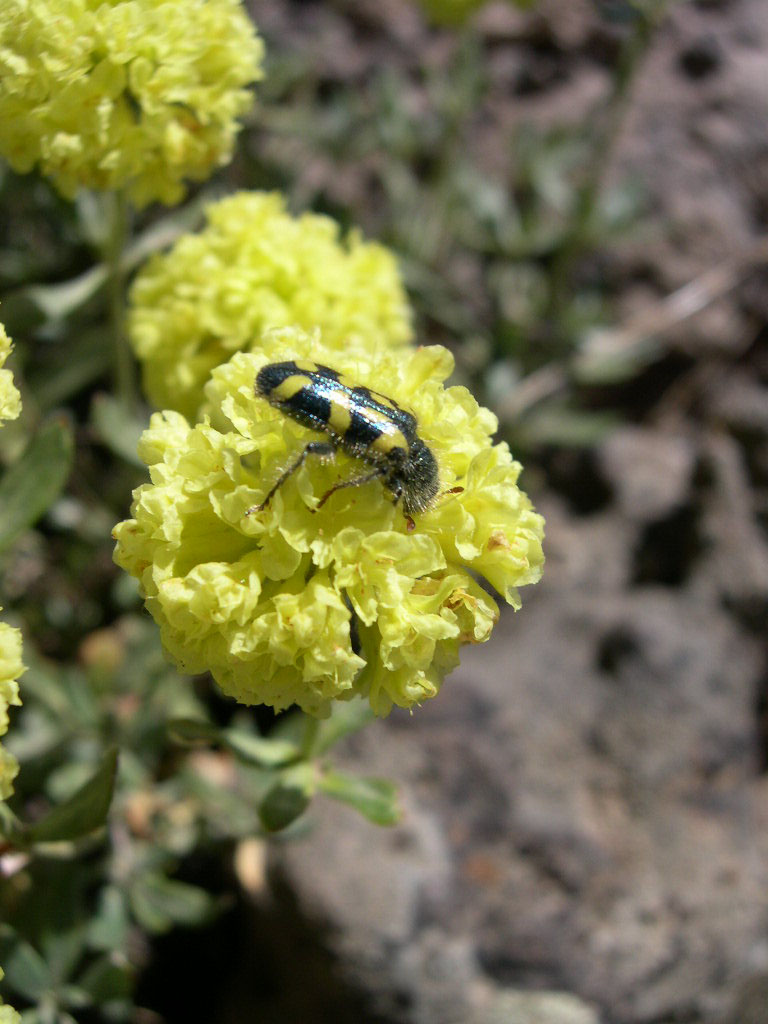 Eriogonum sphaerocephalum var. sphaerocephalum closeup in southwest Idaho